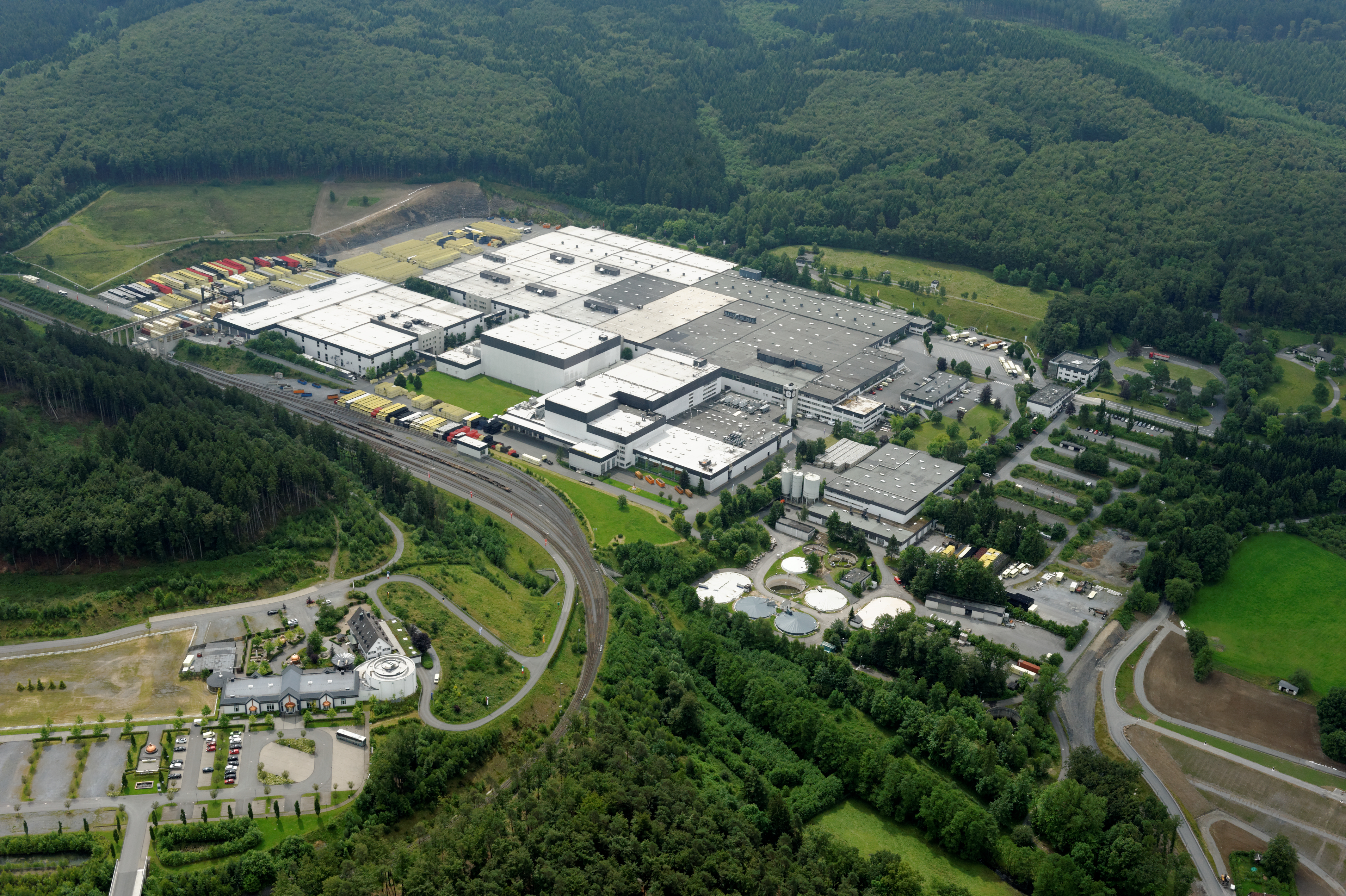 Fotoflug Sauerland Nord, Warsteiner Brauerei mit Besucherzentrum (links) aus Richtung Norden The making of this document was supported by the Community-Budget of Wikimedia Germany.